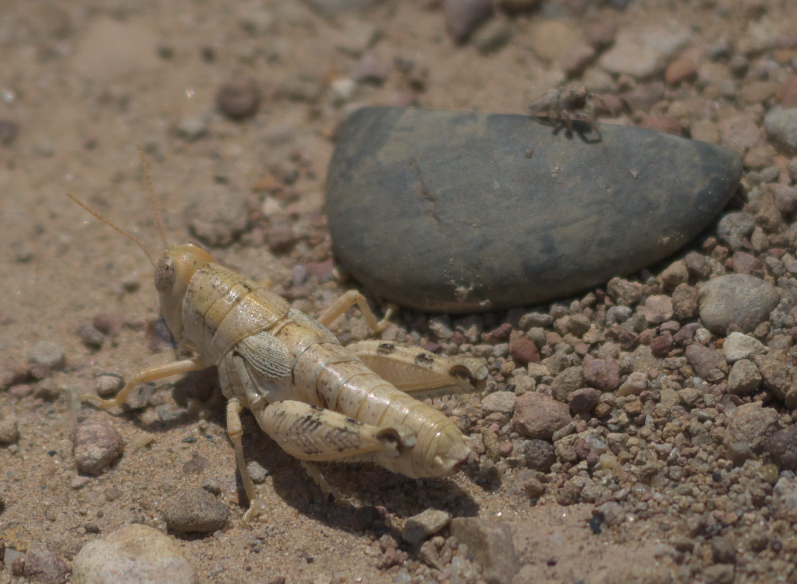 Aeoloplides chenopodii, Colorado Plateaus Saltbush Grasshopper, female, with a spider., ID Confidence: 98